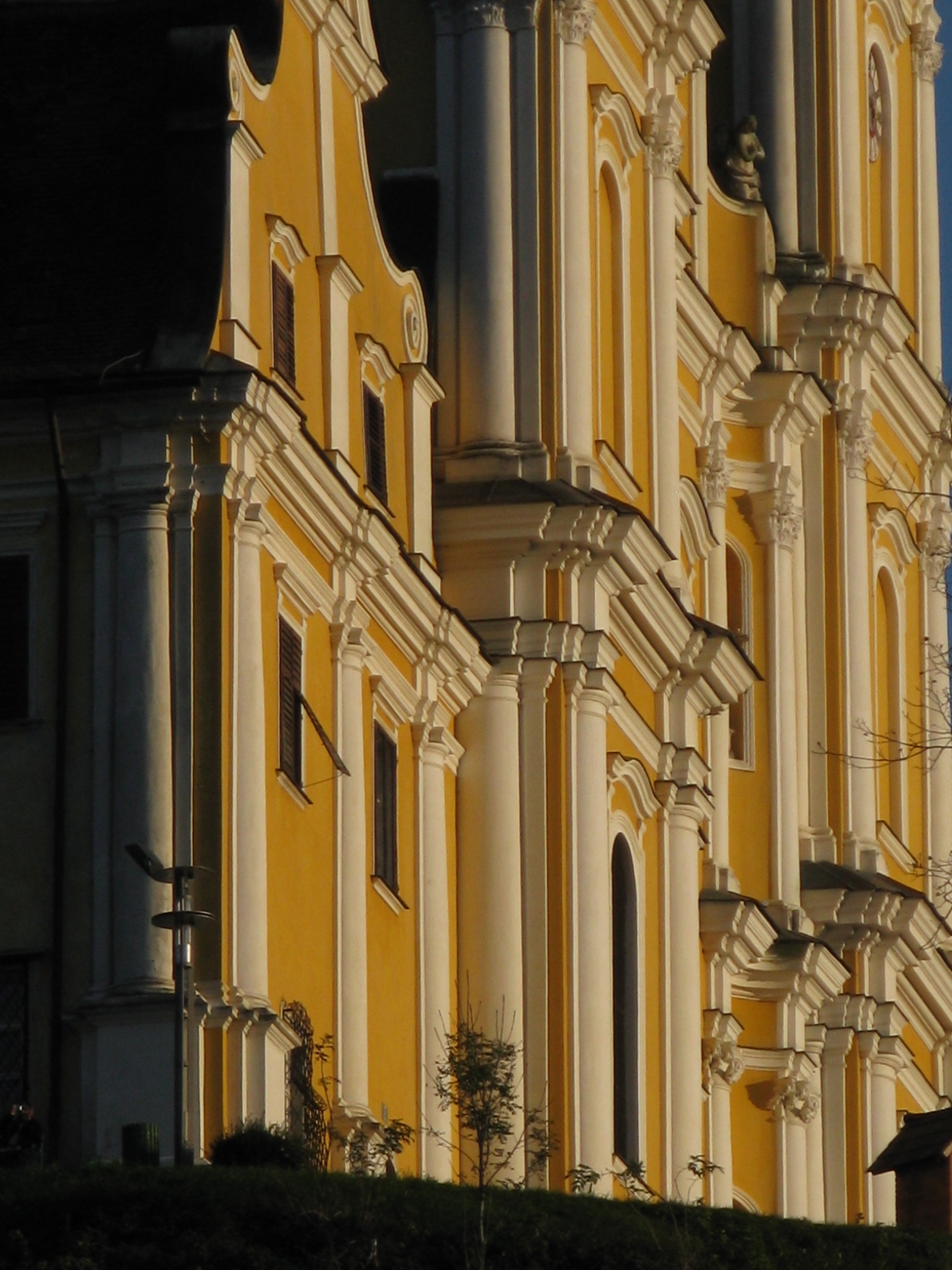 Styrian Baroque, 18th century